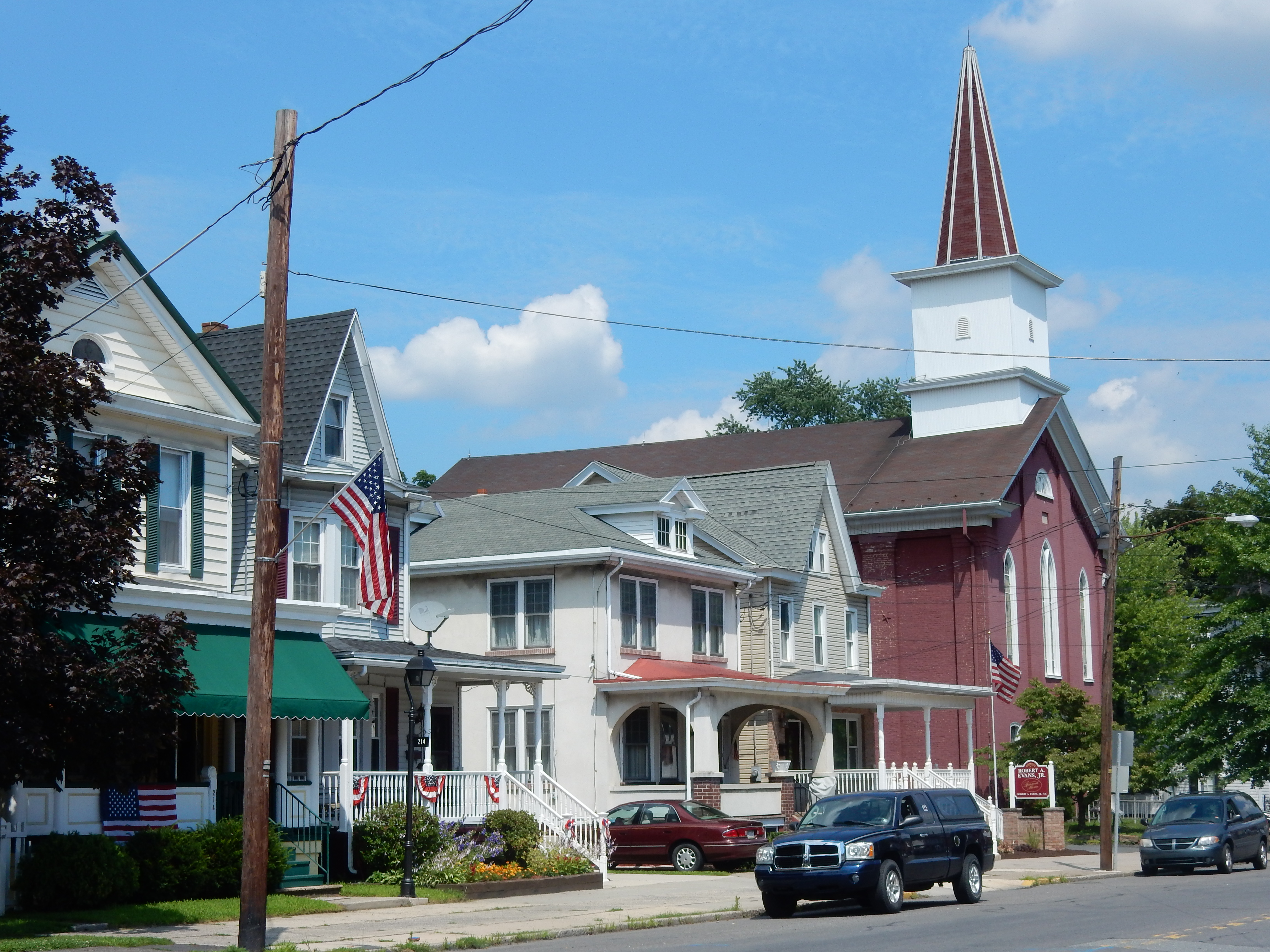 Pike St., Port Carbon, Schuylkill County, Pennsylvania. Looking east from Pike and Market Sts, intersection.